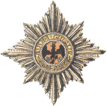 Drawing of a Prusian star. Bruststern des Schwarzen-Adler-Ordens, A. Menzel, 19. Jht.